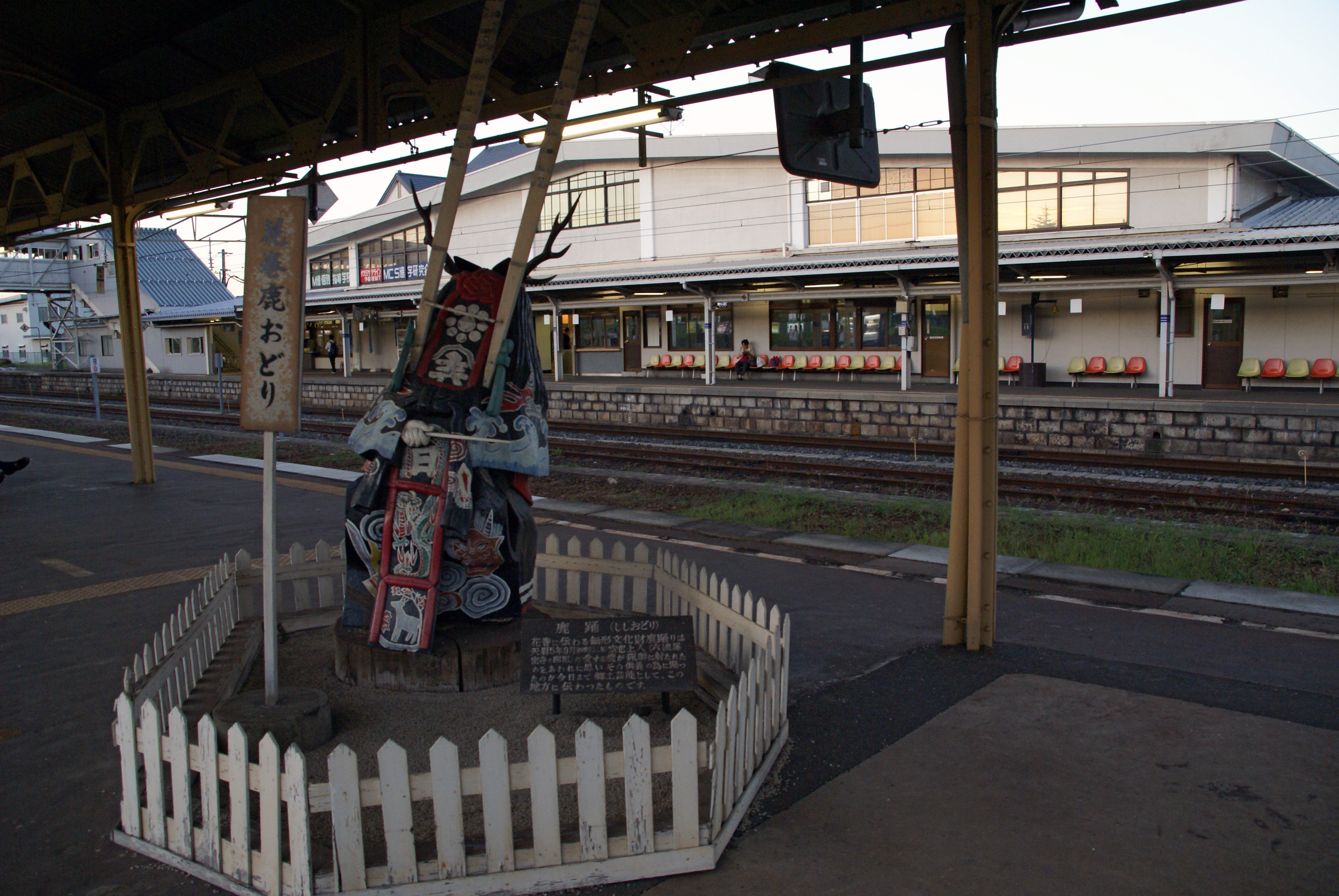 Hanamaki Station in Hanamaki, Iwate prefecture, Japan